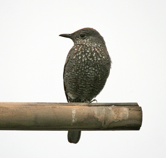 Blue Rock Thrush Monticola solitarius at Jayanti in Buxa Tiger Reserve in Jalpaiguri district of West Bengal, India.